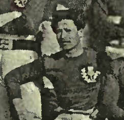 Alfred Clunies Ross from a picture of the first Scotland Rugby side in 1871.